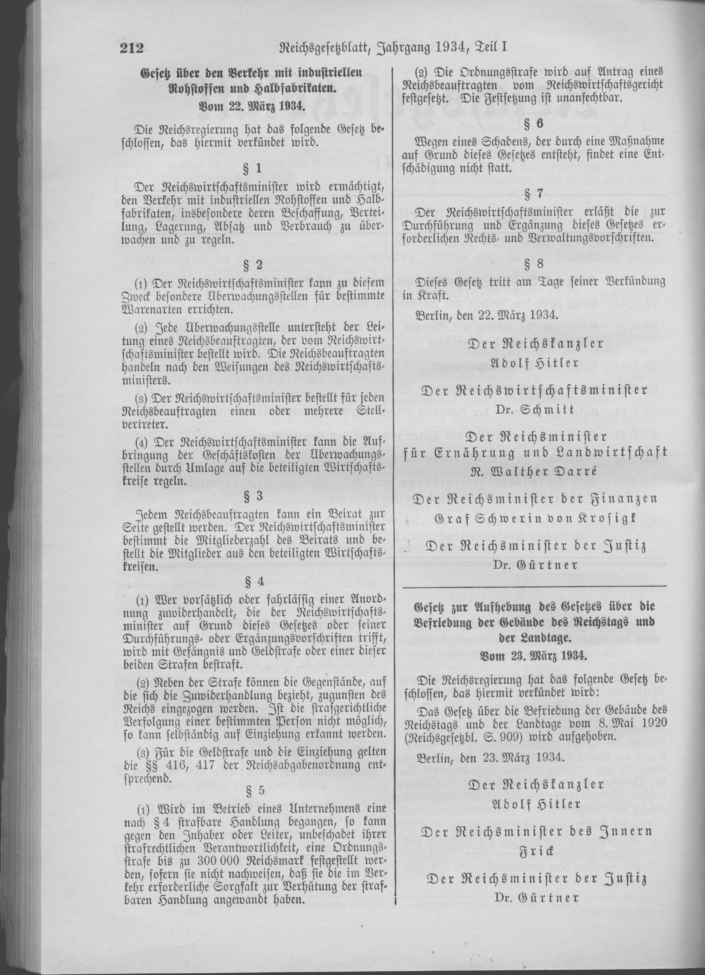 Scan from the Imperial Law Gazette of Germany, 1934, part 1